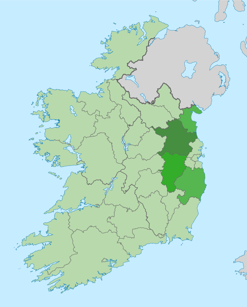 New boundary of the Mid-East Region, Ireland